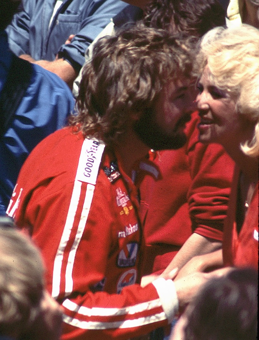 NASCAR driver Tim Richmond. Photo by Ted Van Pelt